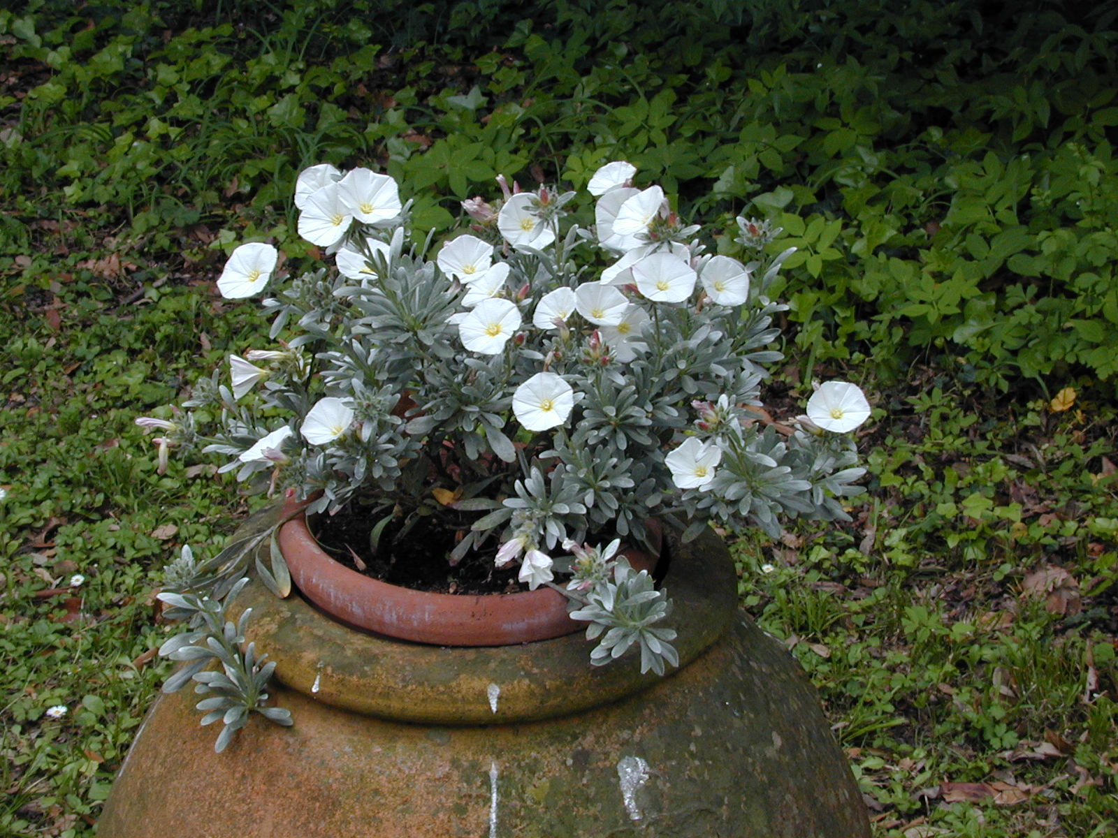 Convolvulus cneorum, taken in Pisa botanical garden.